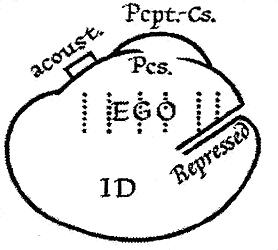 Freud's diagrams from 'The Ego and the Id' (1923)